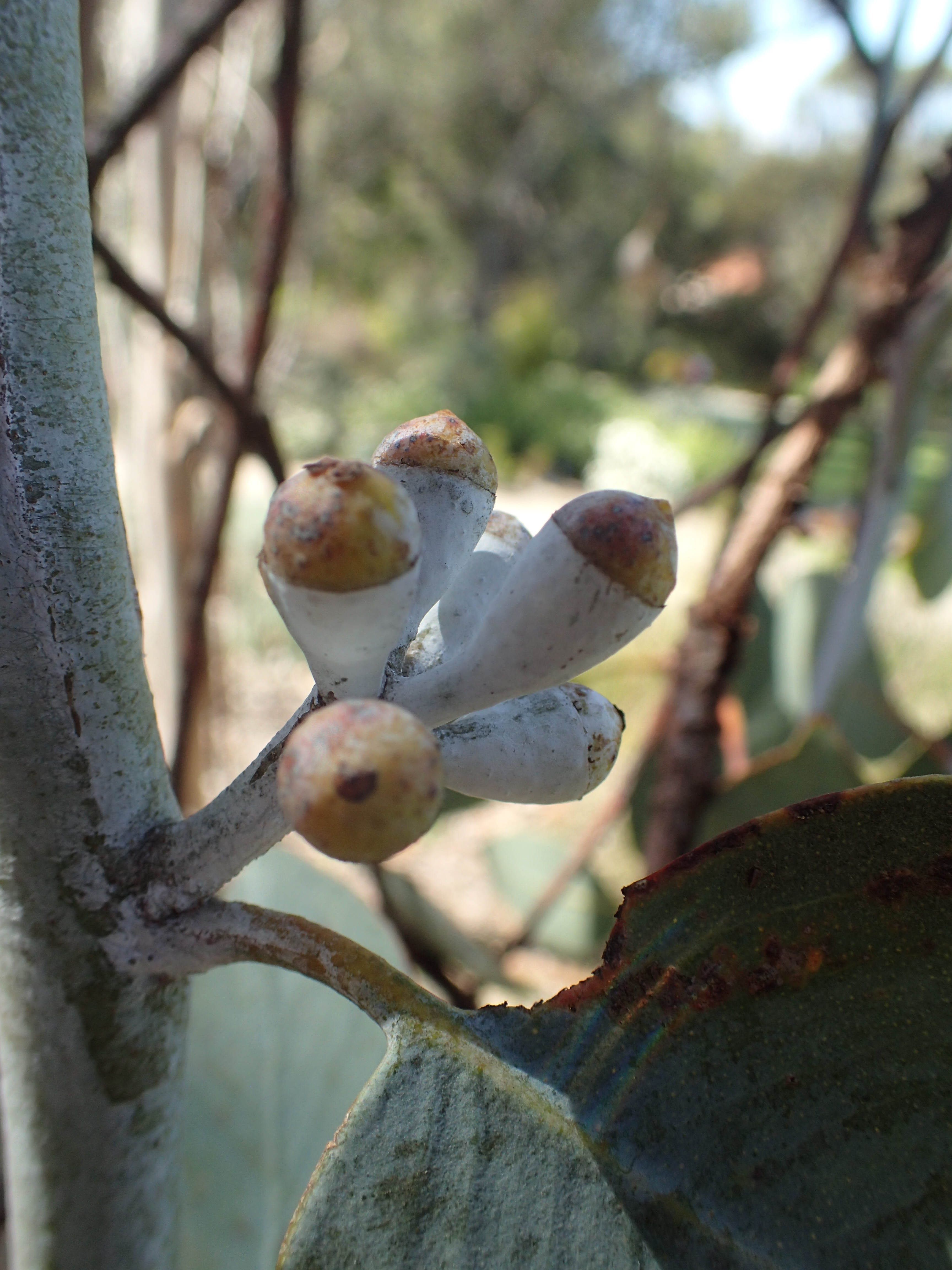 Flower buds of Eucalyptus georgei in Kings Park, Perth